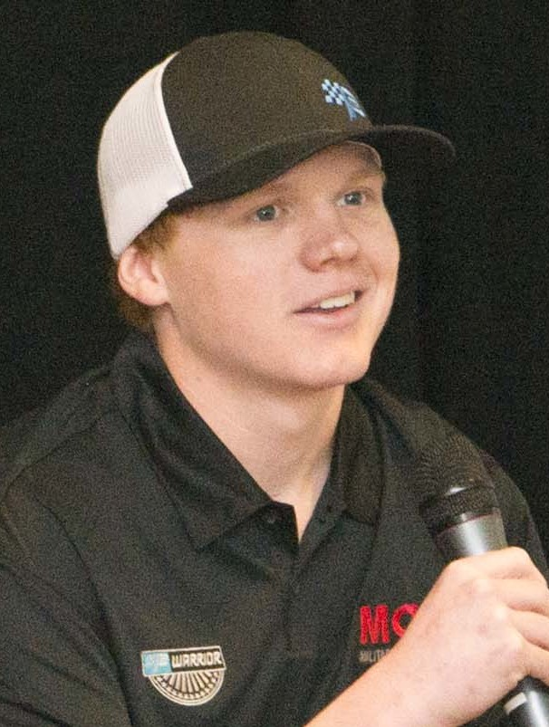 Richard Petty, left, and his grandson, Thad Moffitt, both Nascar drivers, answer questions for Team Ramstein at the Kaiserslautern Military Community Center on Ramstein Air Base, Germany, Jan. 27, 2018. Petty and Moffitt signed memorabilia, posed for pictures with service members and their families, and participated in a question and answer session. (U.S. Air Force photo by Senior Airman Elizabeth Baker)